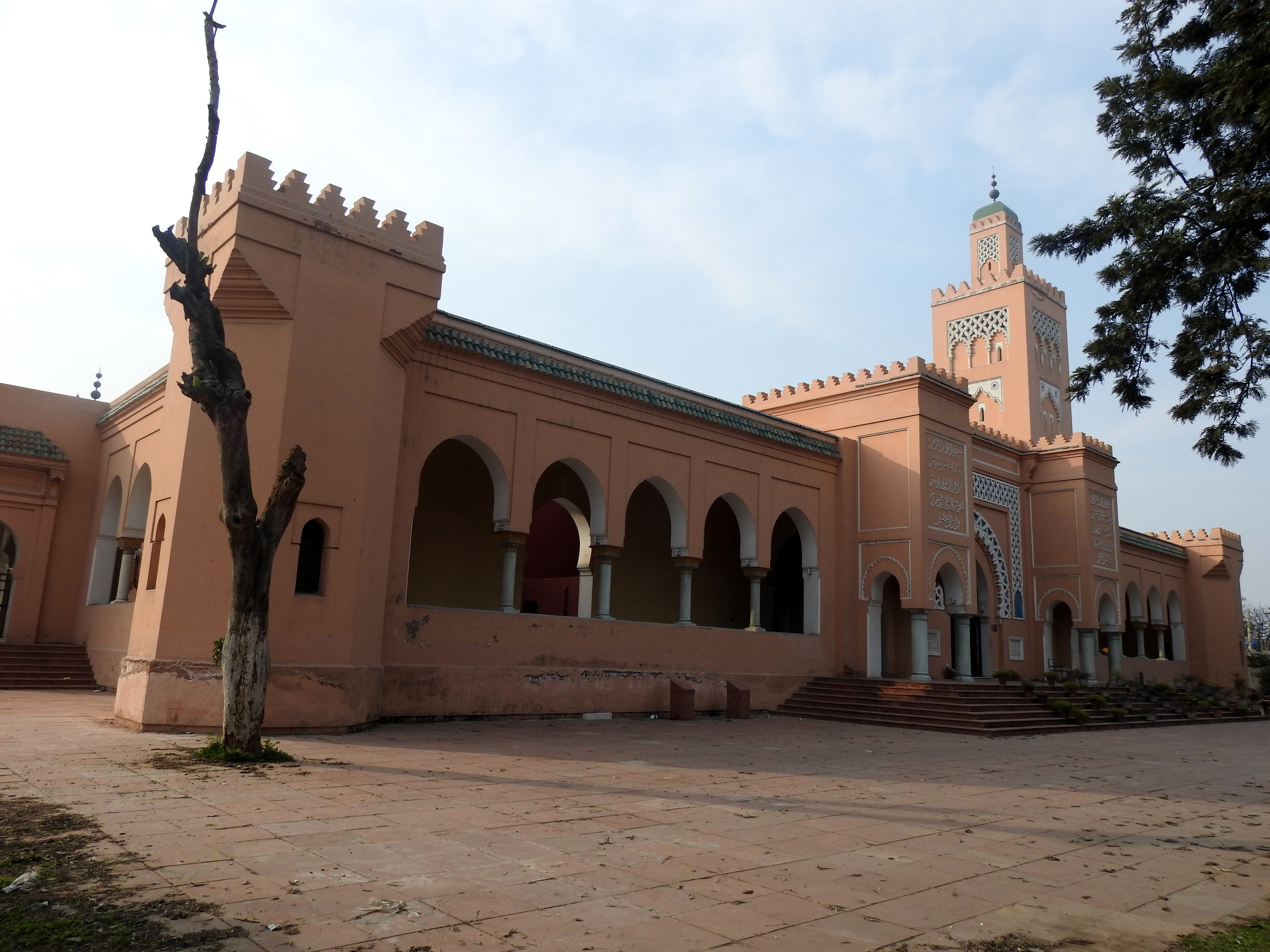 Moorish Mosque of Kapurthala in the state of Punjab. The Mosque of Kapurthala, a famous replica of the Grand Mosque of Marakesh, Morocco, was built by a French architect, Monsieur M Manteaux. It was constructed by the last ruler of Kapurthala, Maharajah Jagatjit Singh and took 13 years to complete between 1917 and 1930. The Mosque is a National Monument under the Archeological Survey of India.